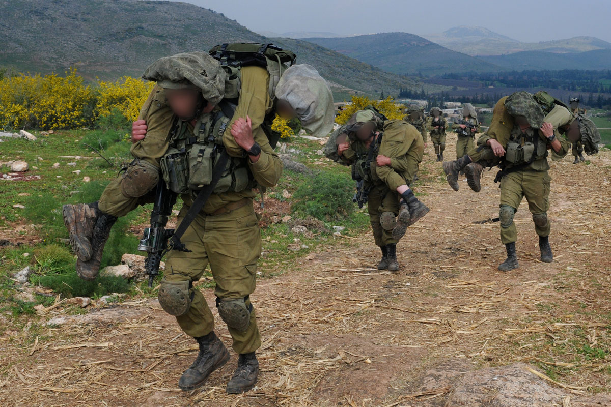 February 27, 2012 Last month, soldiers from the Elite Egot Unit took on their final test- after more than a year of training, they conducted a week of exercise in which they put all of their studying into action. During this week, the soldiers demonstrated their abilities in camouflage, fighting in urban warfare style and much more. The Egoz Reconnaissance Unit is an elite special forces unit of the IDF that specializes in guerrilla warfare. The Egoz Battalion is part of the Northern Command's Golani Brigade. The Israel Defense Forces Facebook The Israel Defense Forces blog Follow us on Twitter